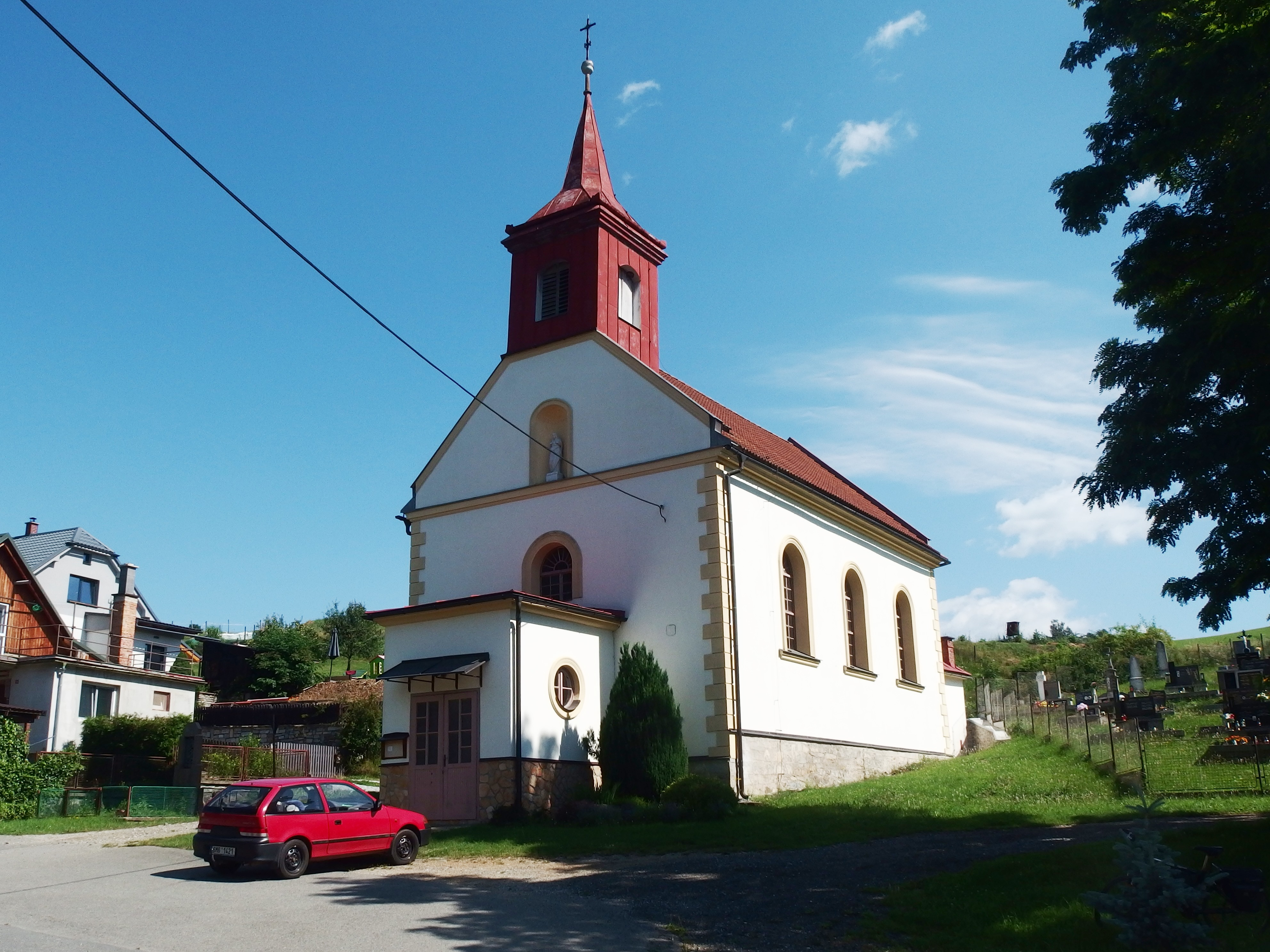 Bohdíkov, Šumperk District, Czechia, part Komňátka.